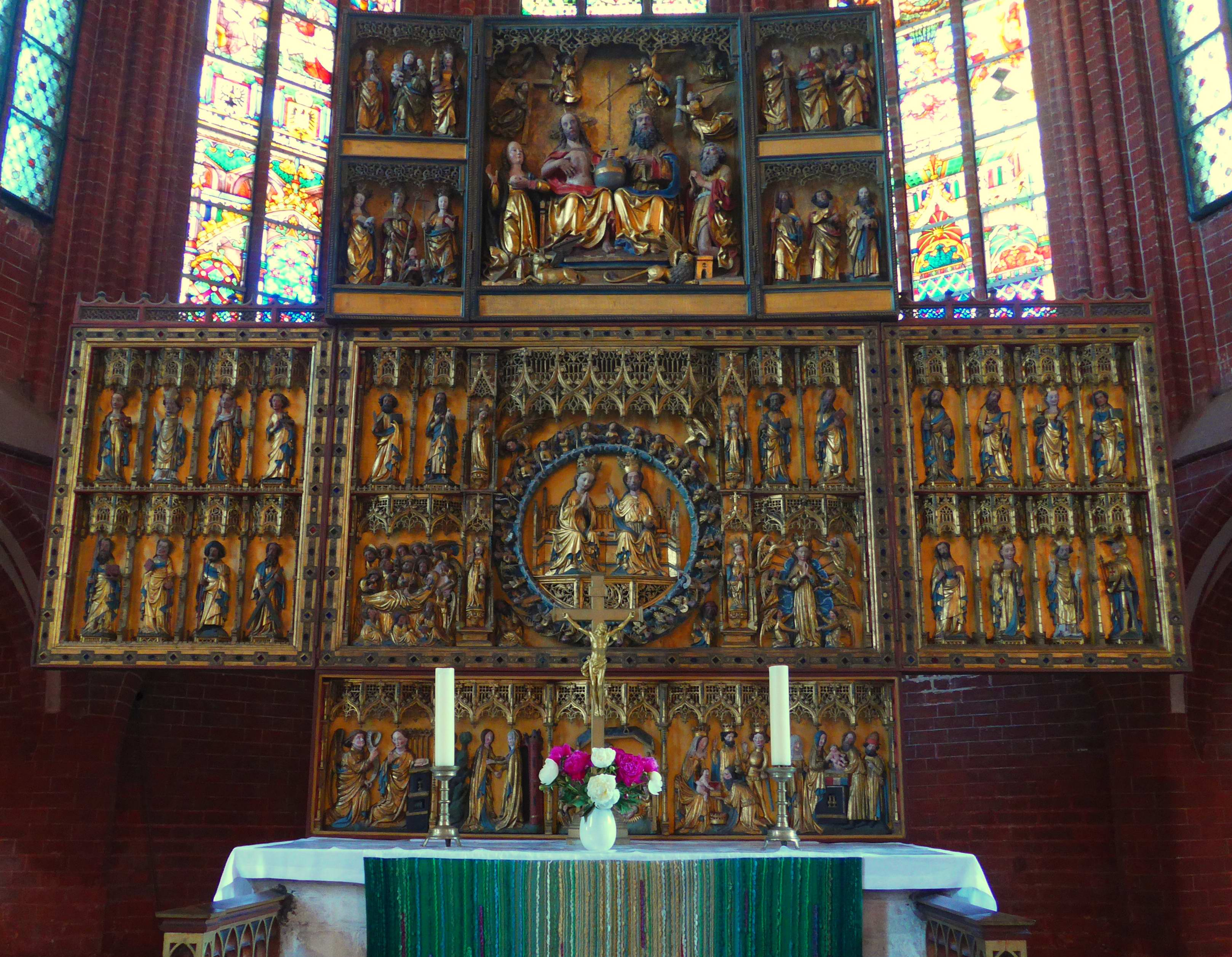 Altarpiece in St. Johannes, Werben, Sachsen-Anhalt, Germany, about 1430 and 1510